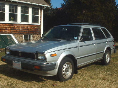 Second generation (1982-1983) Honda Civic